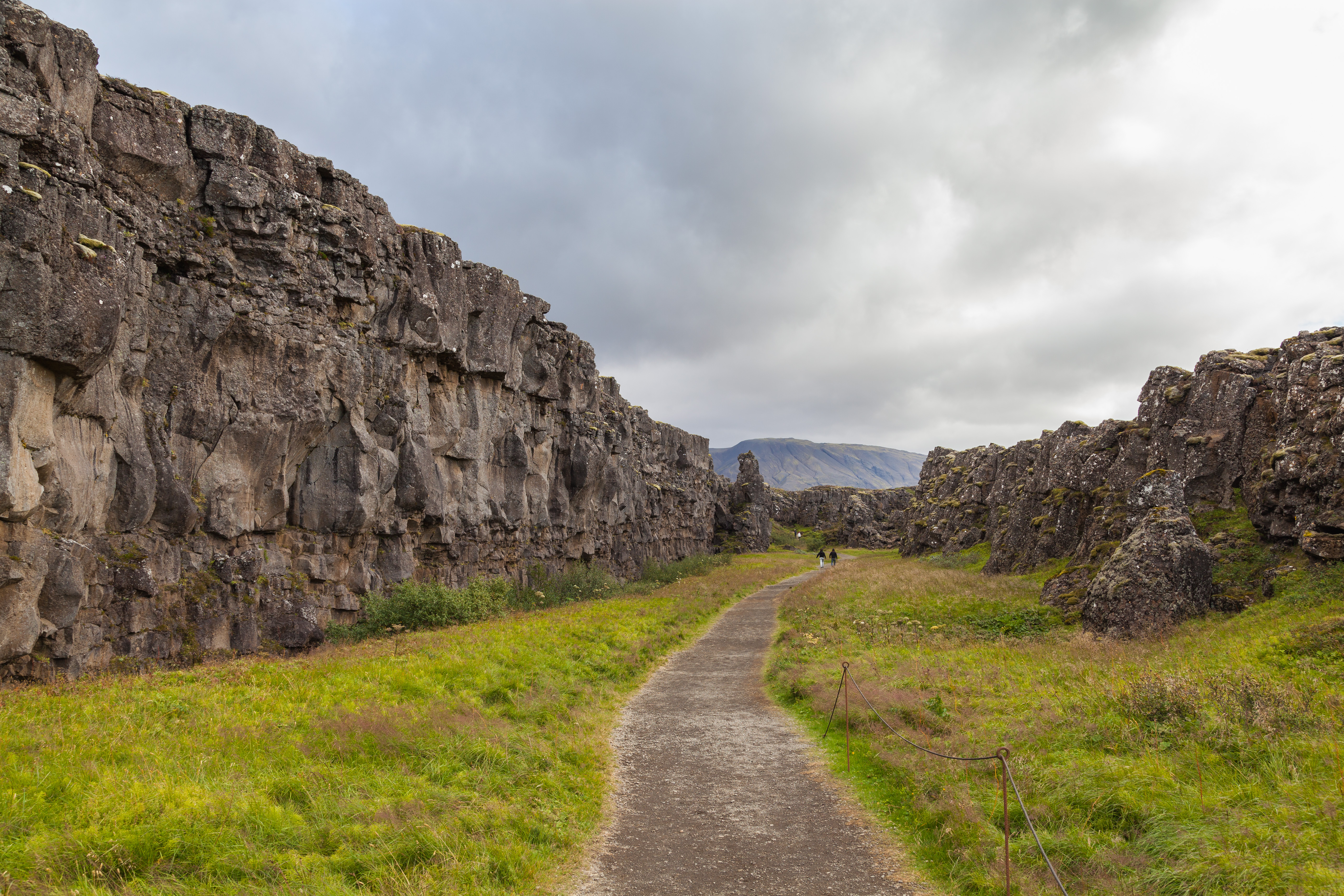 Law Rock, Þingvellir National Park, Suðurland, Iceland